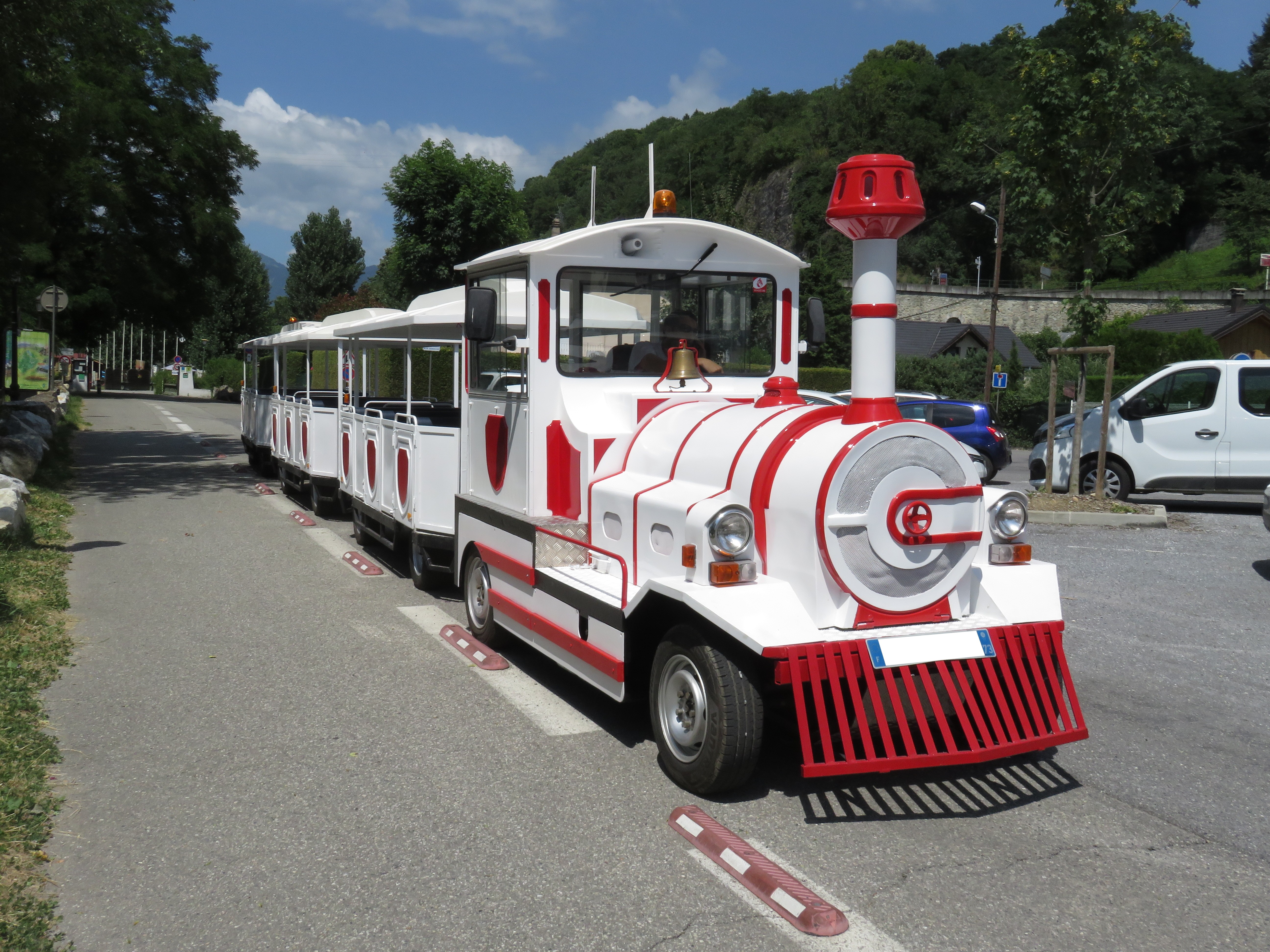 The touristic train of Albertville parked in the Avenue du camping (Albertville, France) on June 22, 2018.